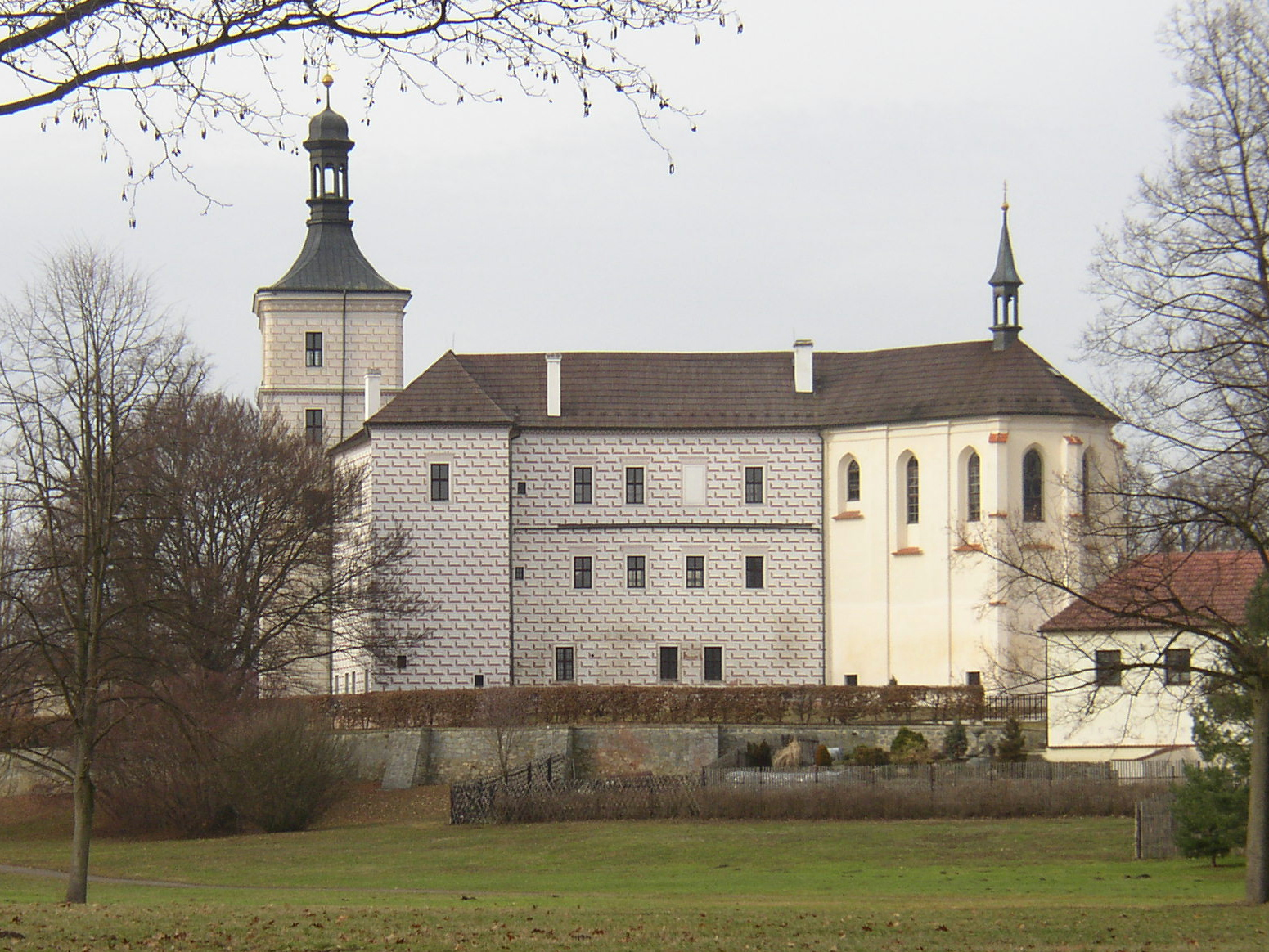 Březnice Chateau, Příbram District, Czech Republic.